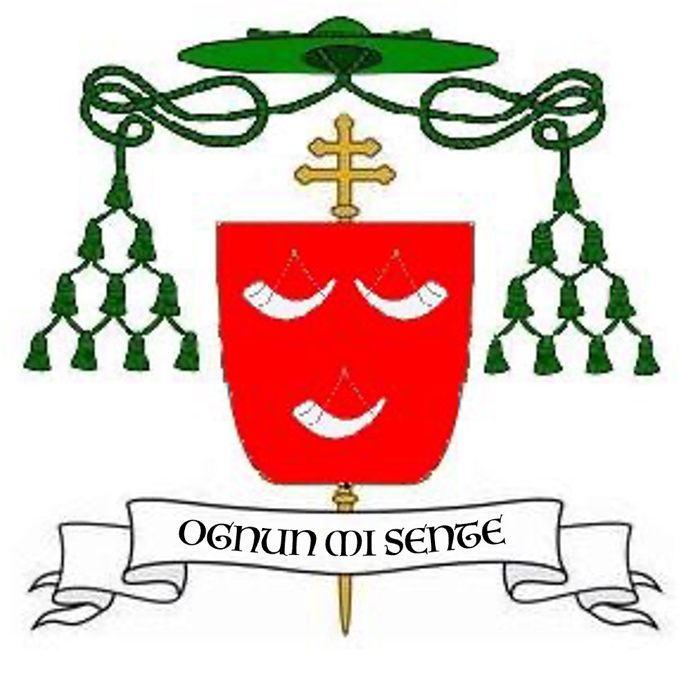 Coat of arms of Luigi Nazari di Calabiana, Archibishop of Milan